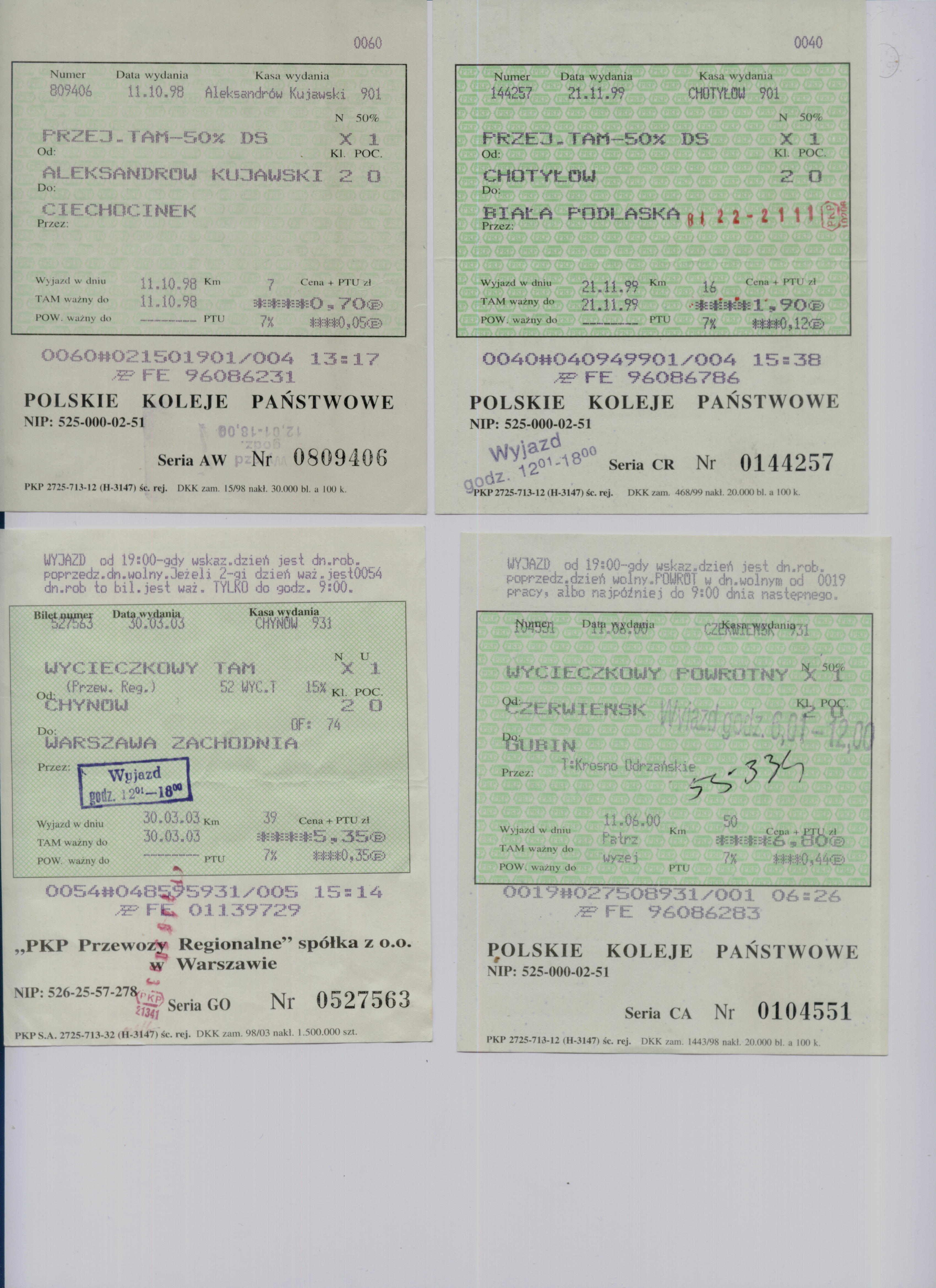 Computer-generated train tickets issued in Poland by PKP (state railroads). This form was typical for small stations which did not offer seat reservations.